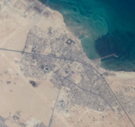 Satellite imagery of Doha and Al Wakrah taken in 2009 by NASA.